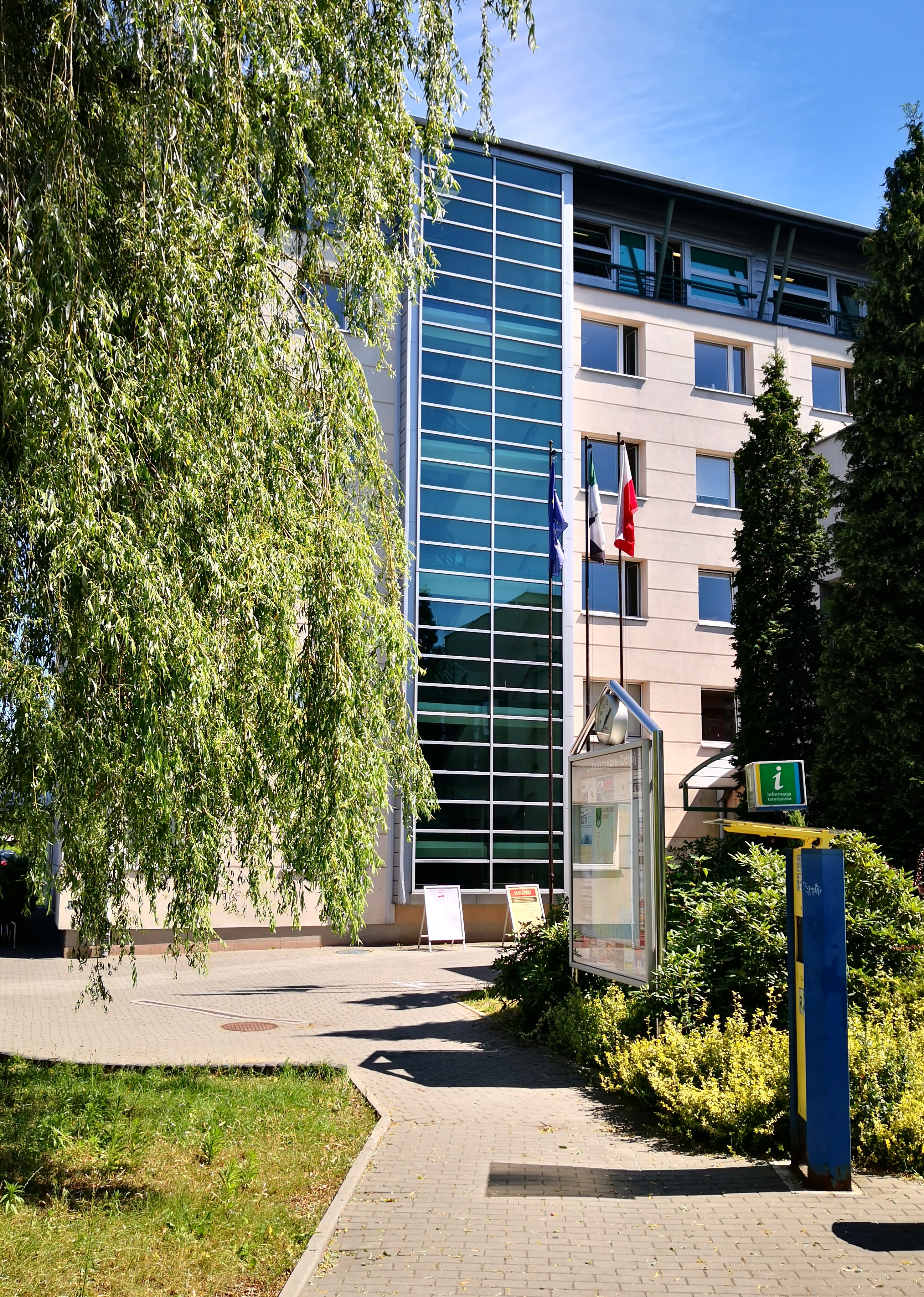 Town Hall in Jastrzębie-Zdrój